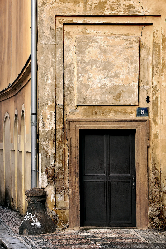 Entrance to the monastery of st. James in Prague